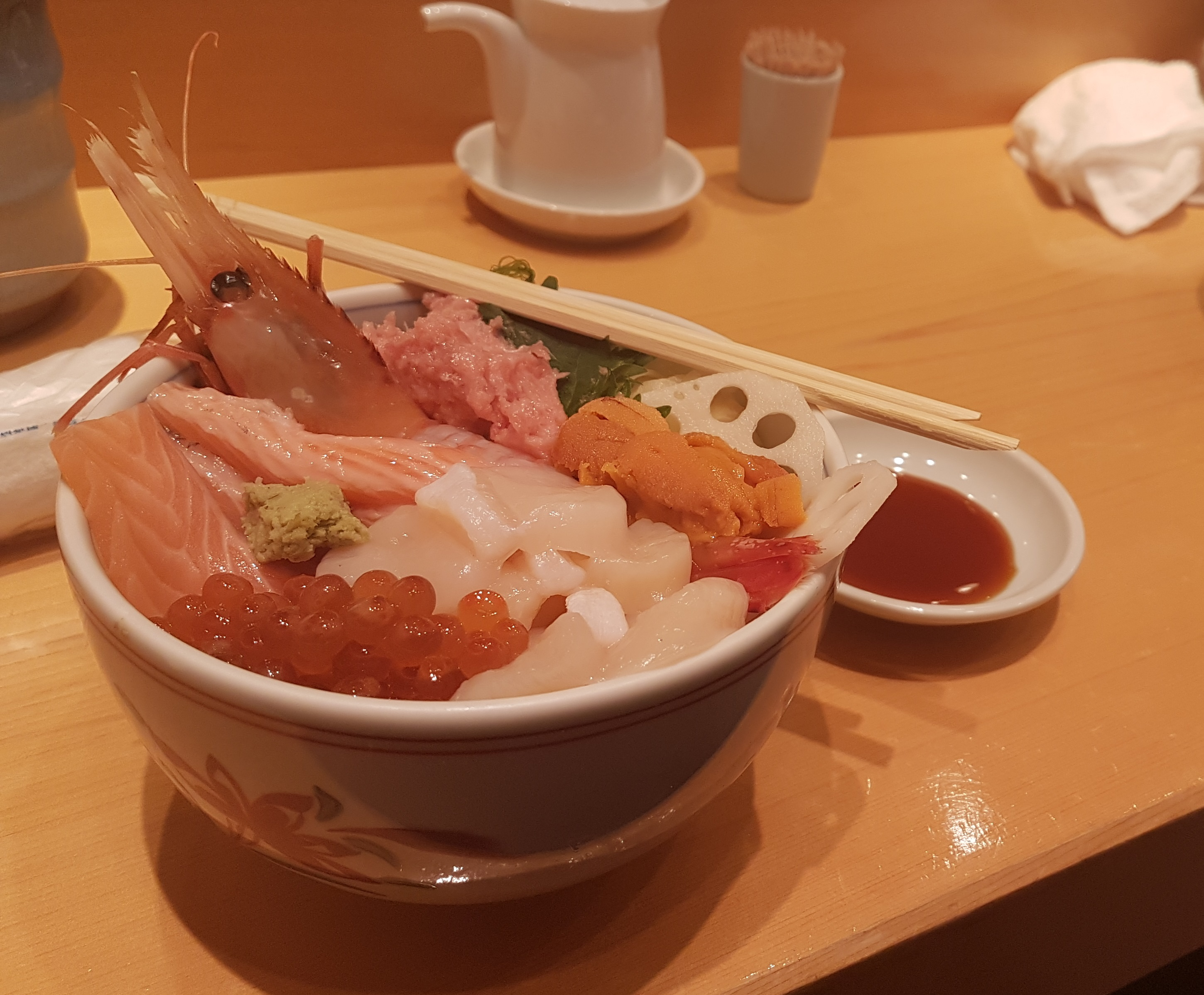 A seafood Donburi at Tsukiji fish market